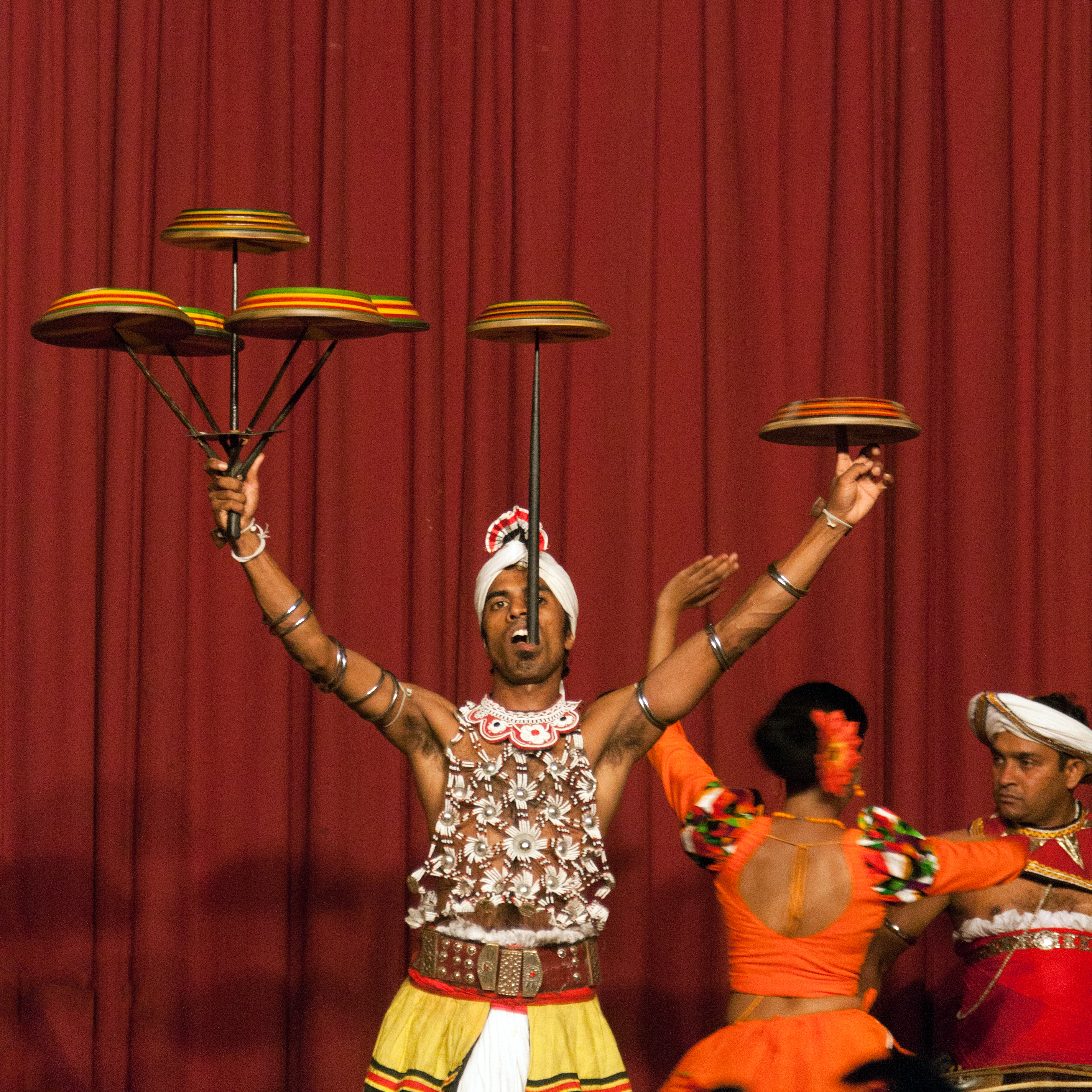 Kandyan dance